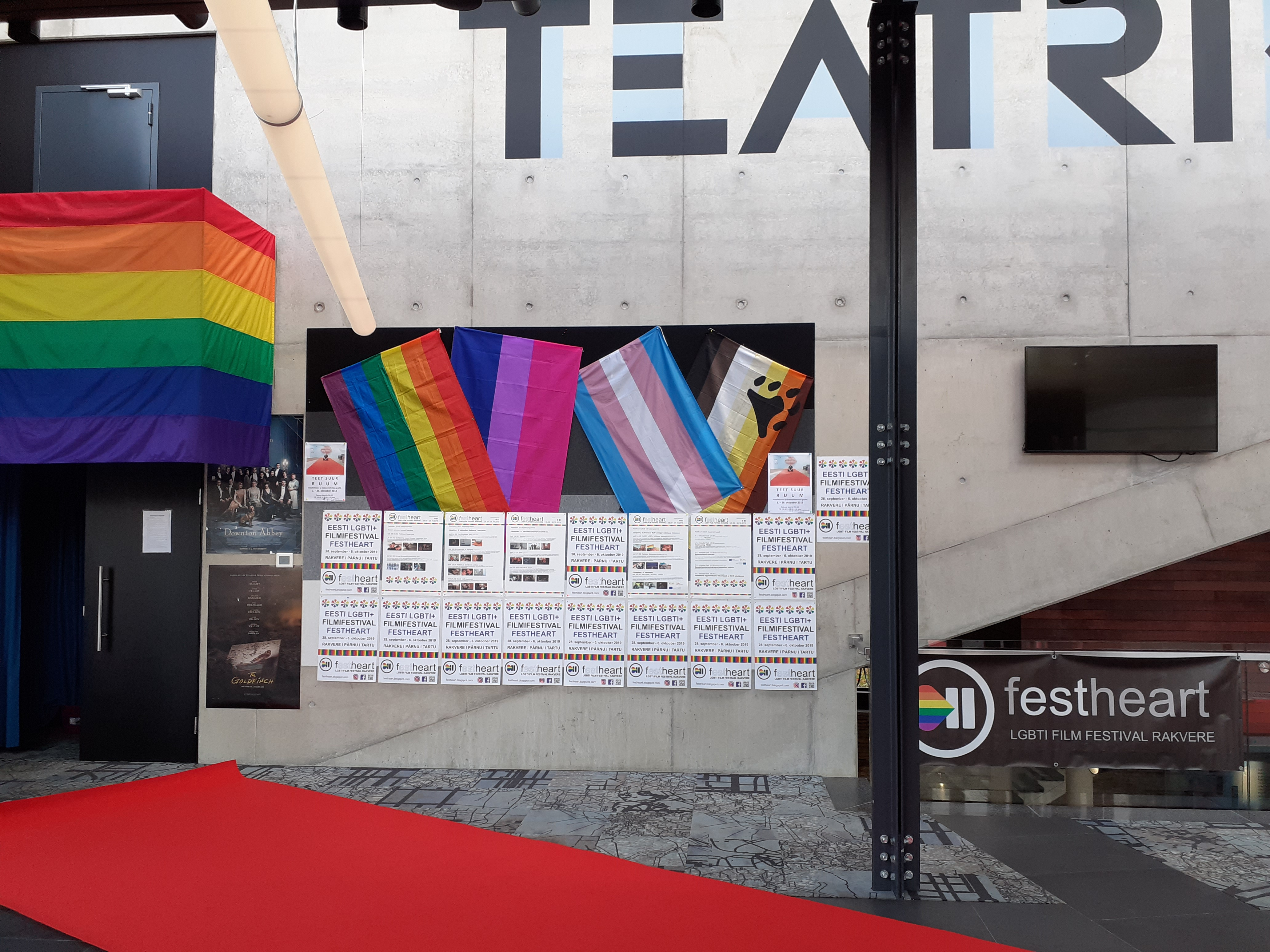 Location of the 3. LGBT+ Film Festival Festheart in 2019. Festival was held in Rakvere, Estonia.